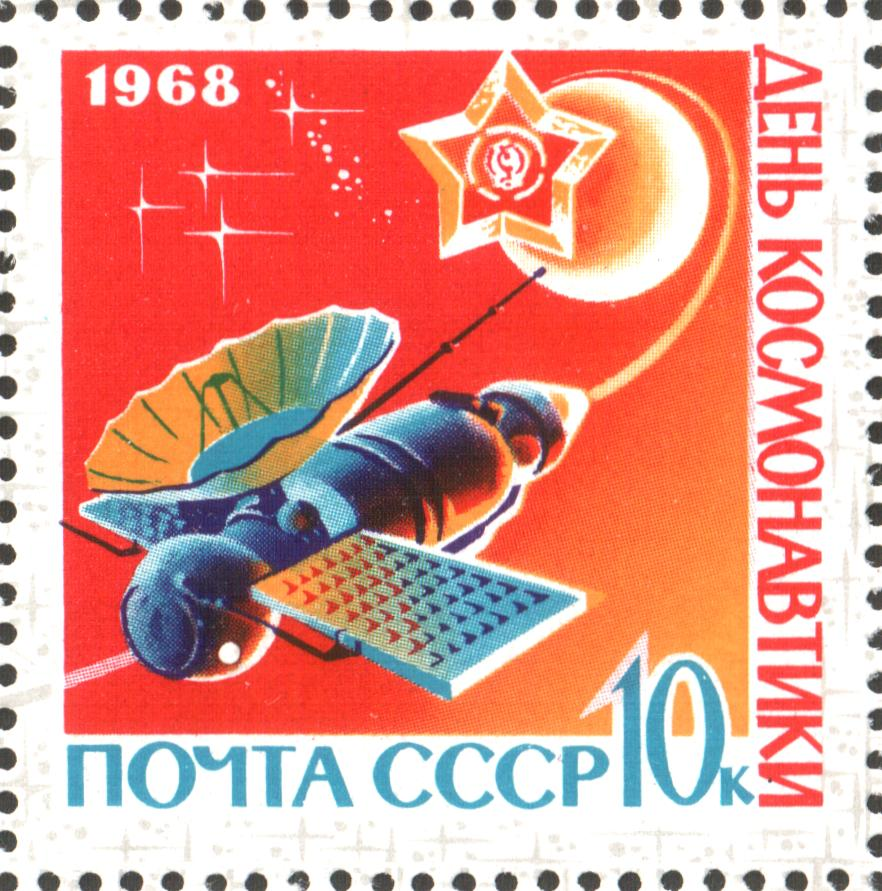 USSR stamp: Venera 4 Space Probe. Series: National Cosmonautics Day